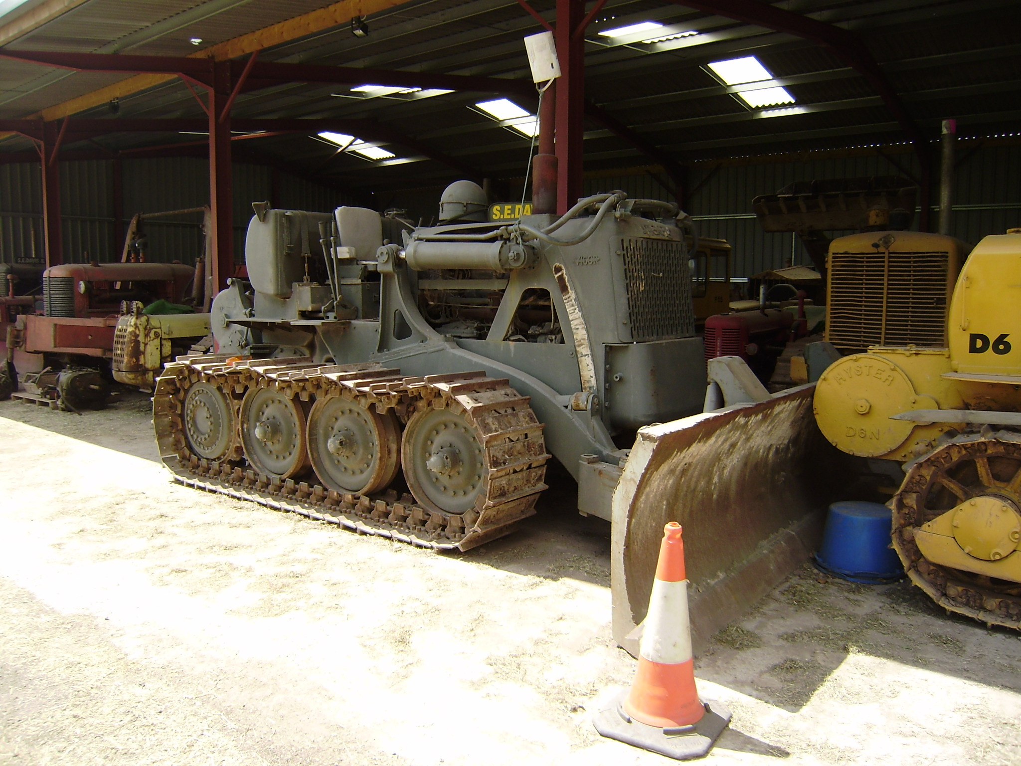 Vickers VR180 Vigor crawler tractor bulldozer. The Vickers Vigor Bulldozer owned by SE Davis & Son's collection 2008